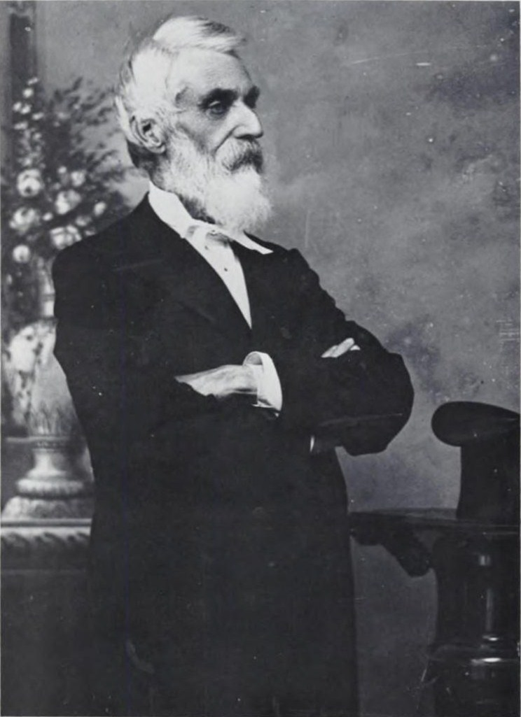 Walter Murray Gibson, Prime Minister of Hawaii 1882-1887 under King David Kalakaua.